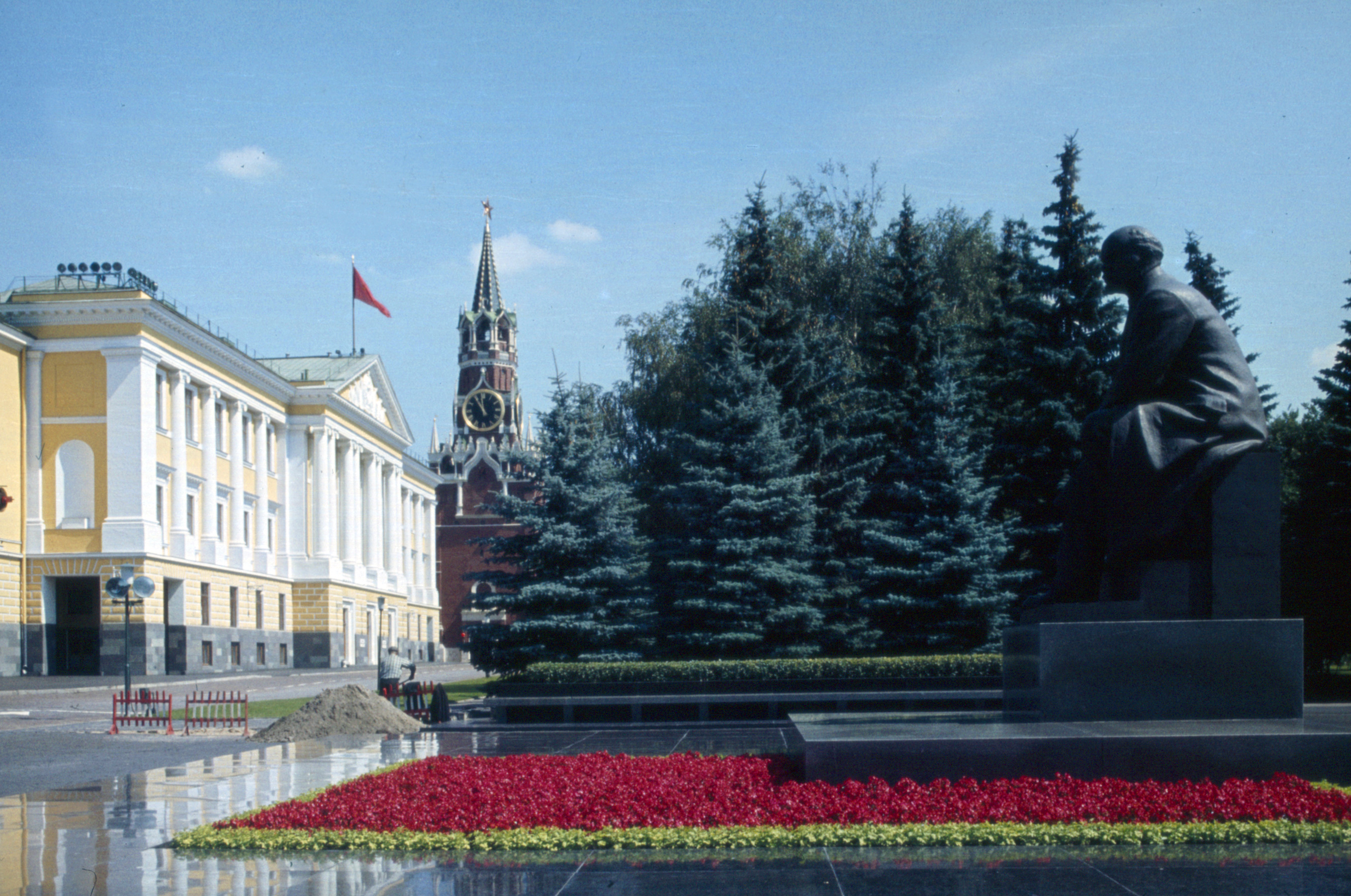 Moscow 1975